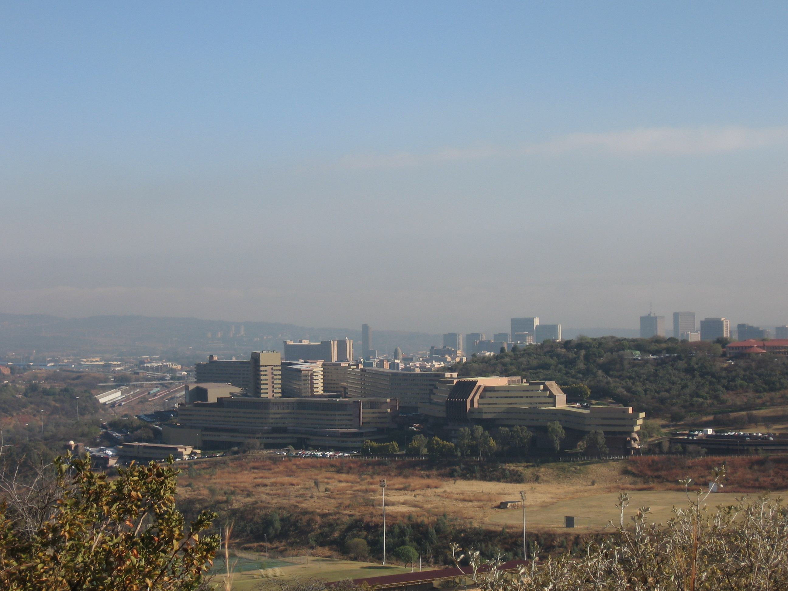 UNISA Main Campus in Pretoria, photograph taken from Klapperkop on 25 August 2006 by Petrus Potgieter